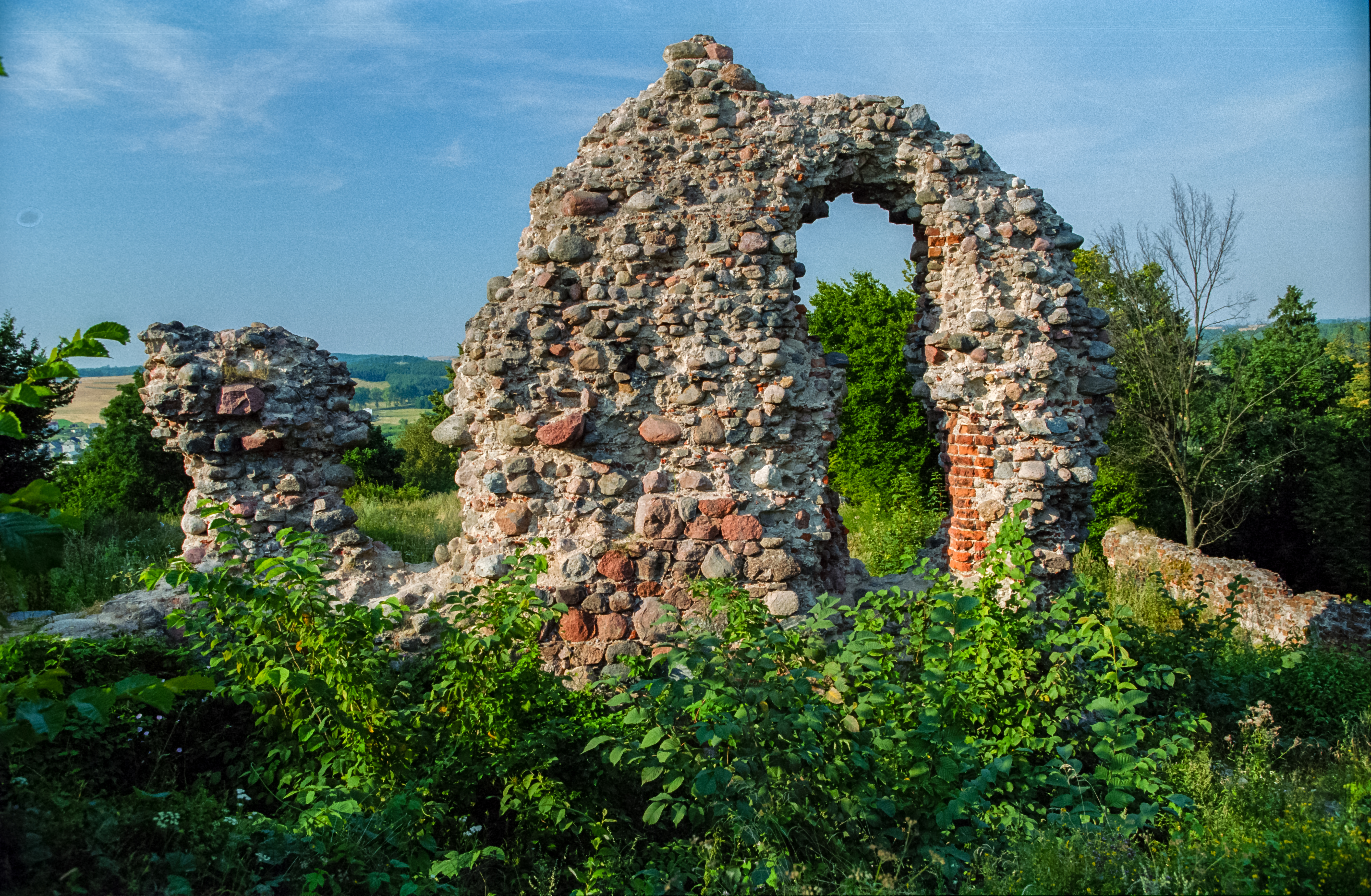 Kurzętnik Castle